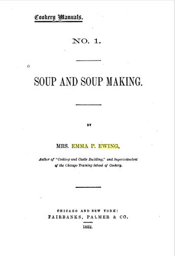 Soup and Soup Making, By Emma Pike Ewing